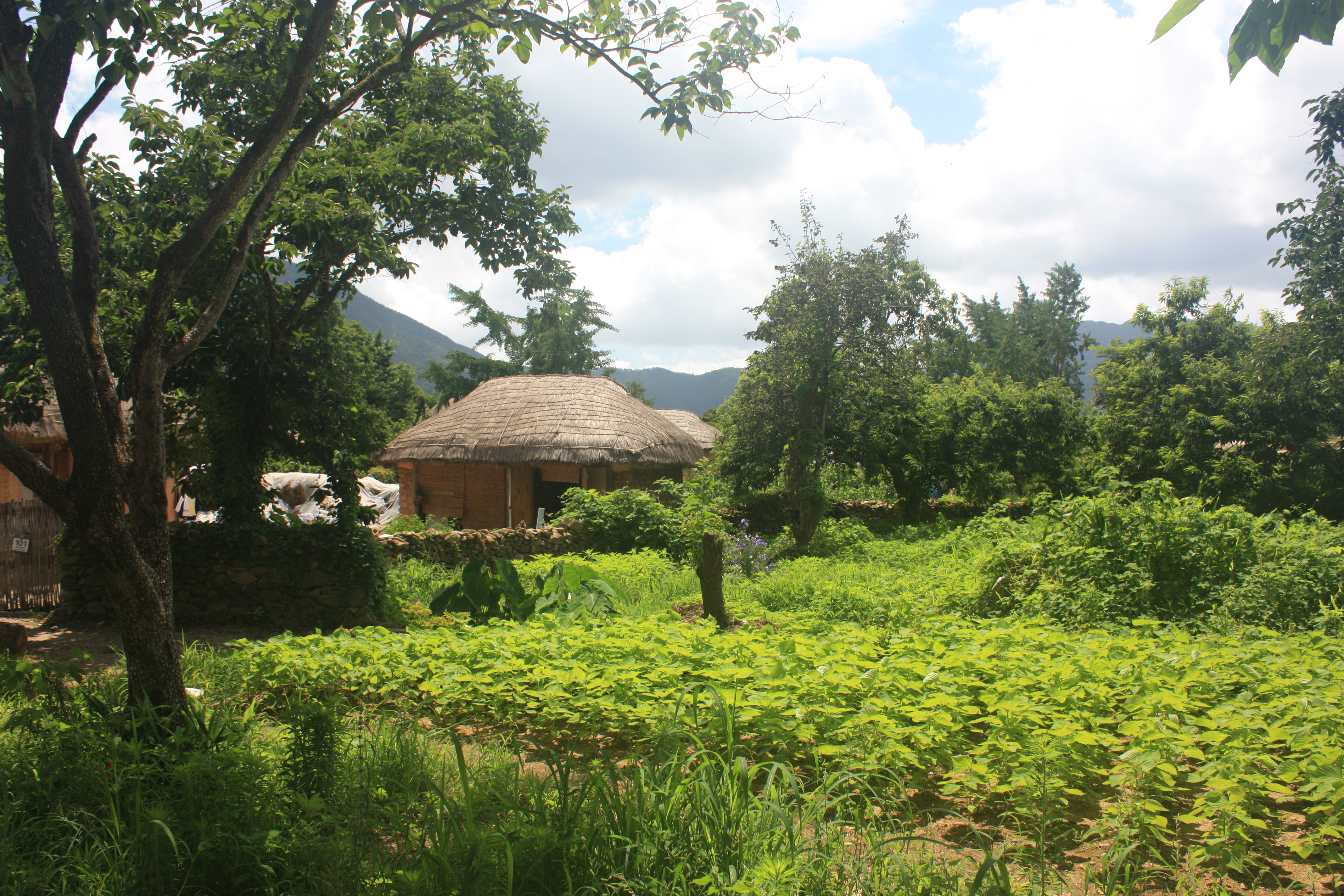 Perilla frutescens and Colocasia esculenta, cultivated in Naganeupseong, South Jeolla Province, South Korea